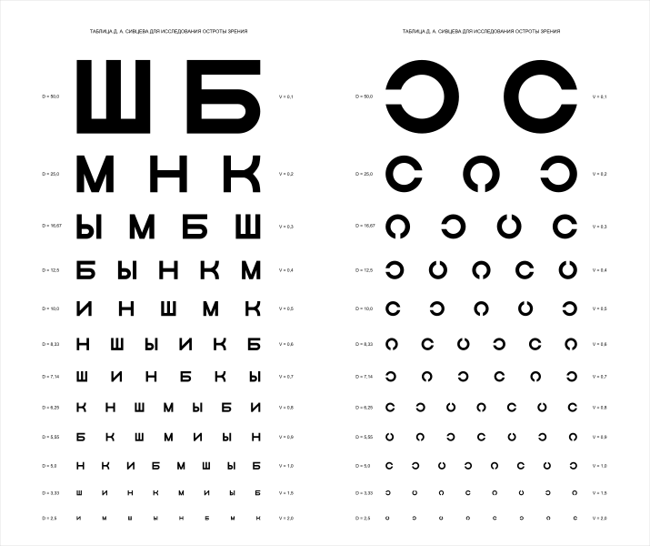 Golovin-Sivtsev Table